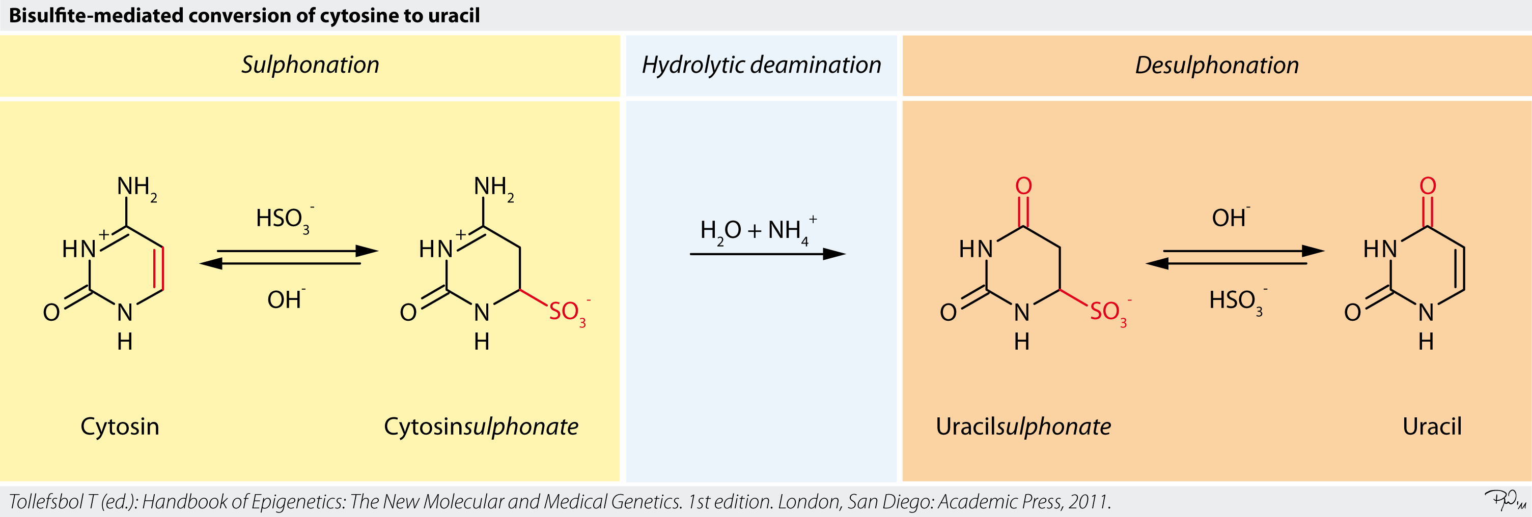 Shows the chemical reaction of the bisulfite-mediated conversion of cytosine to uracil.